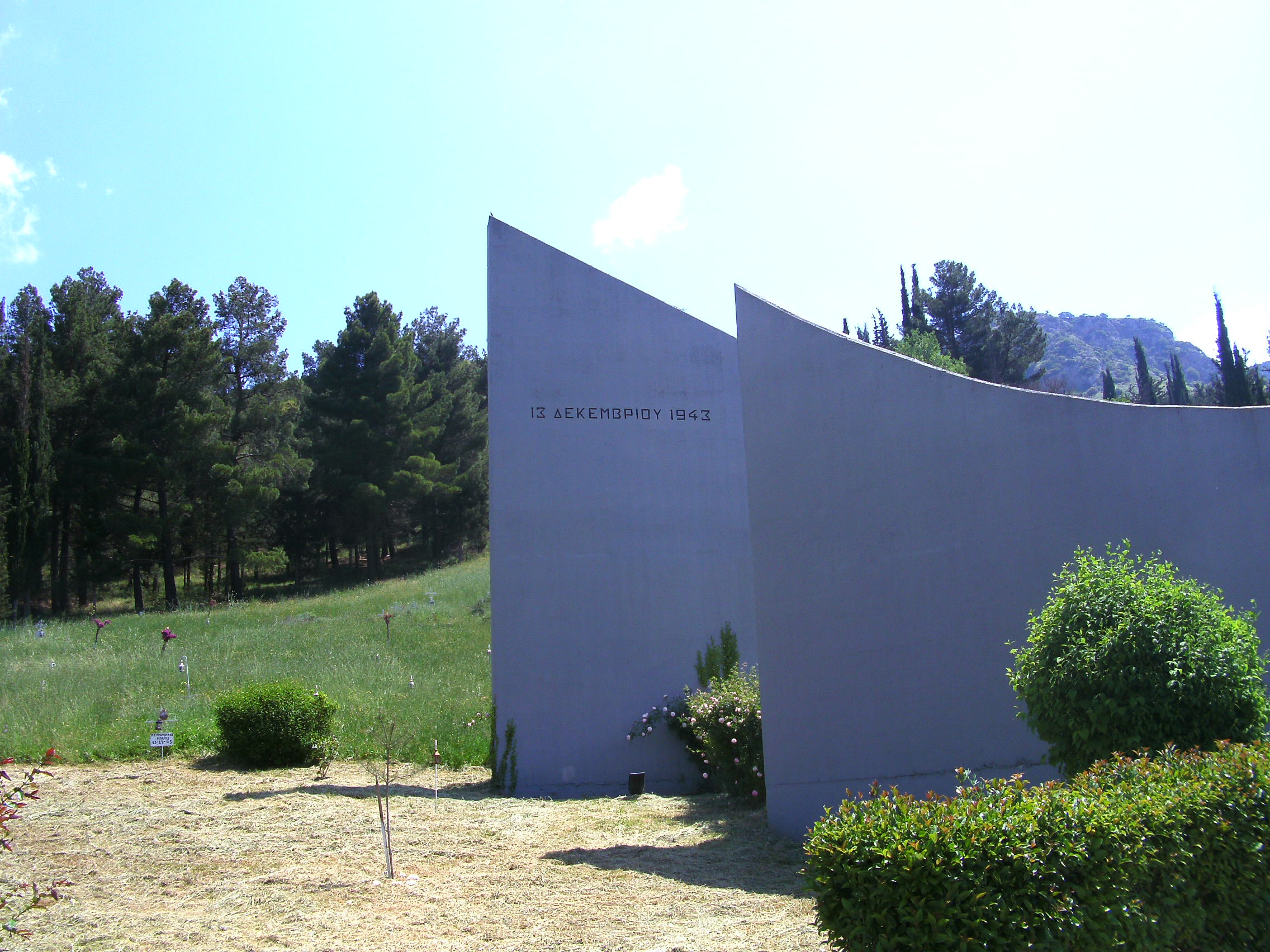 Memorial site for the Massacre of Kalavryta in Kalavryta, Greece.